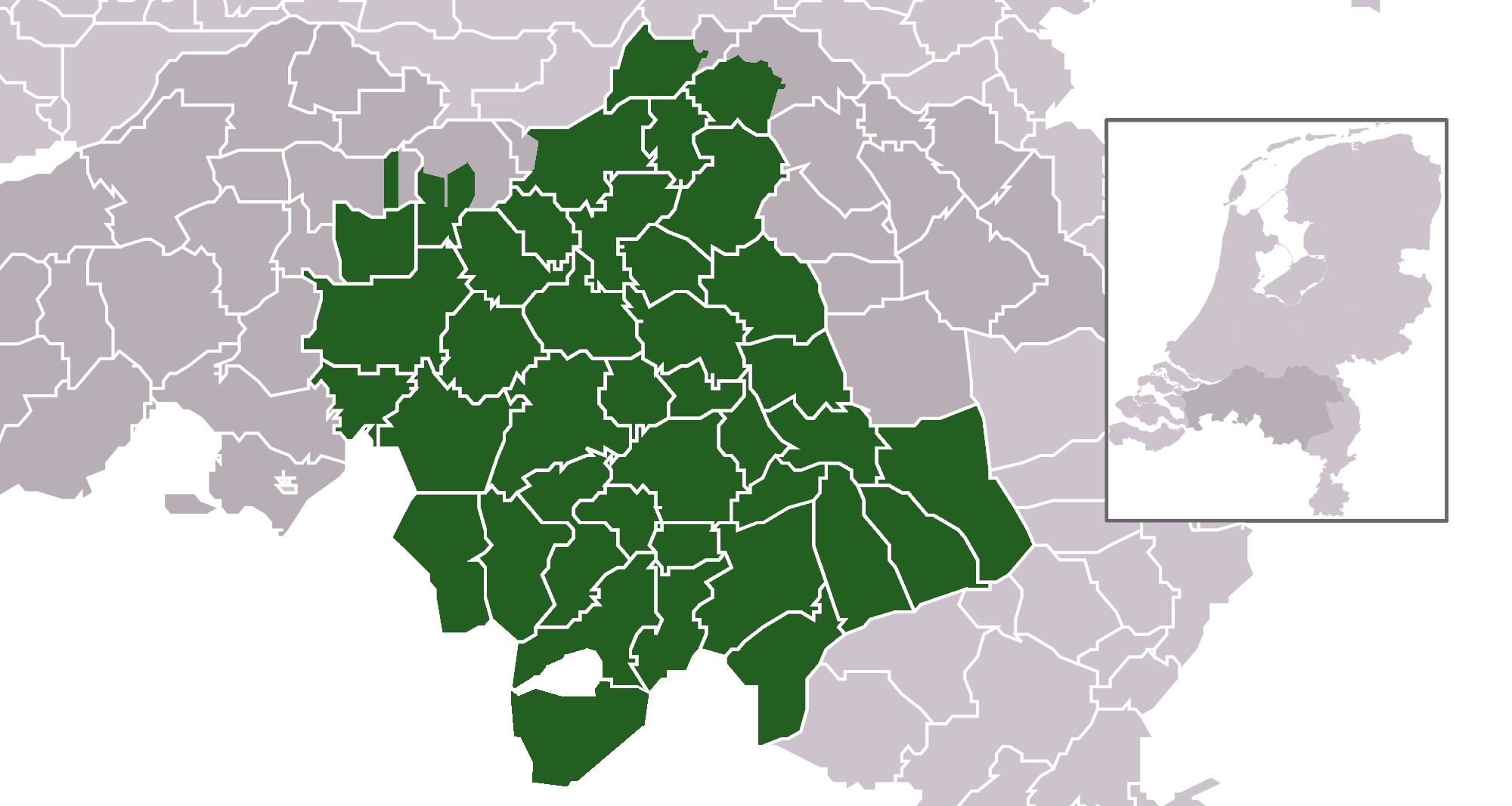 Boundaries of the Meierij region according to the 'Staatkundige verdeling van het huidige Noord-Brabant 1648-1795' in the 'Geschiedenis van Noord-Brabant' Location maps for the 441 municipalities in the Netherlands. Boundaries 1/1/2009 Automatically generated with script File name contains "Municipality codes" (CBS-code) as specified in: [1] Created in svg using coordinate data derived from ESRI data published by Centraal Bureau voor de Statistiek, Voorburg/Heerlen. ([2]) Color coding and original design by user Mtcv (2006/2007) ([3])